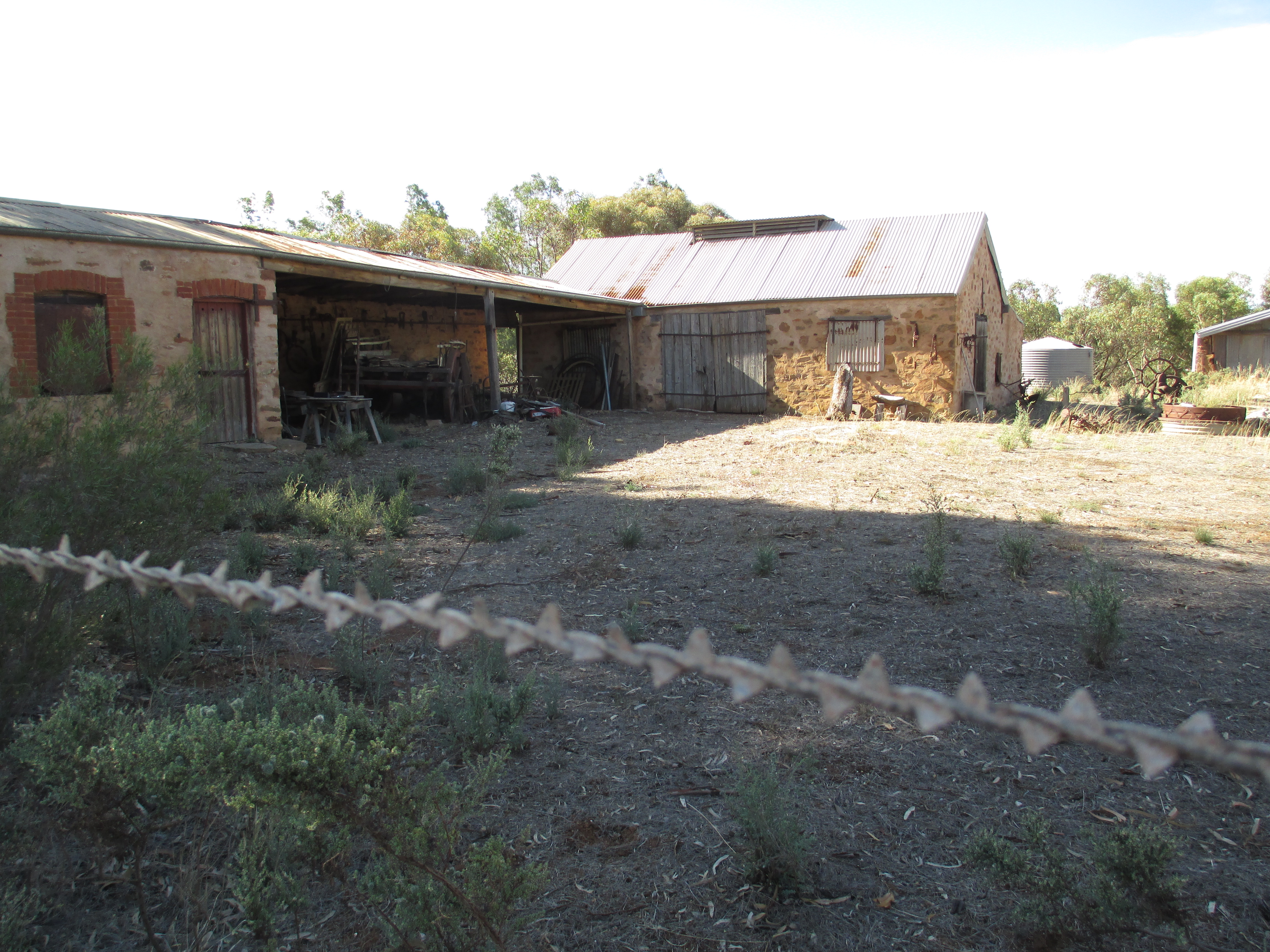 former blacksmith and barbed wire at Dutton